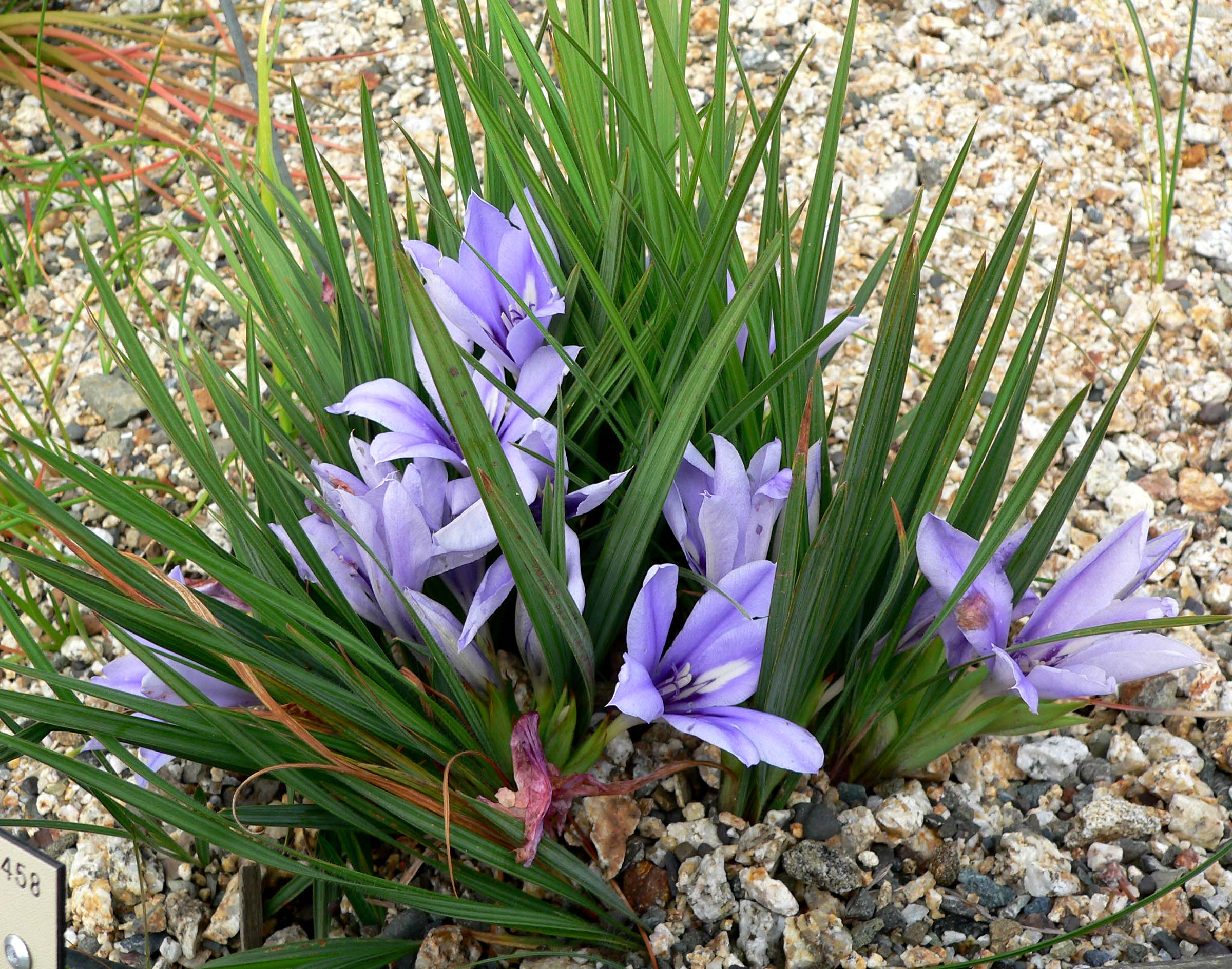 Photo of Babiana sambucina at the University of California Botanical Garden